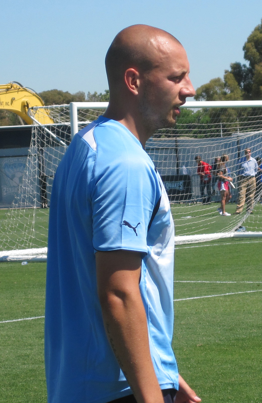 Alan Hutton training with Tottenham Hotspur against San Jose Earthquakes.